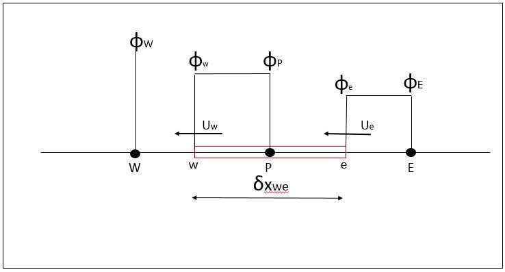 this diagram shows values of properties transported from nodes to faces